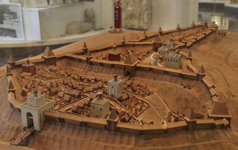 Model of the ancient Russian city of Vladimir in the History Museum of Vladimir